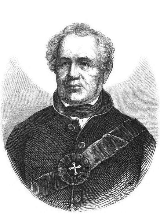 "Eleazer Williams."